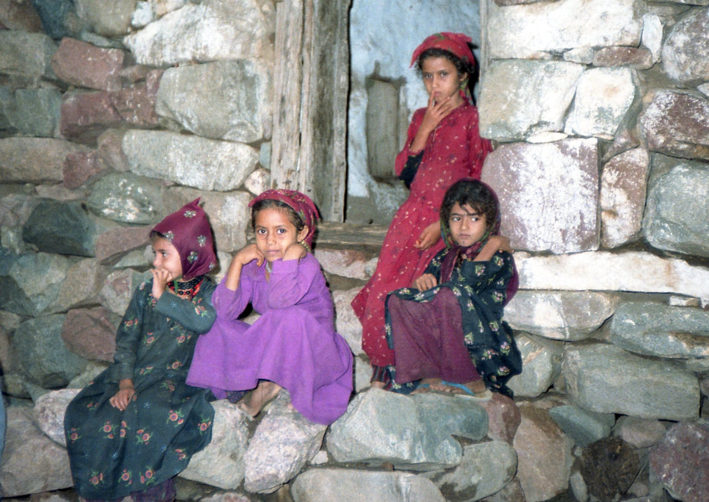 Young girls at Wadi El-Marzunad near Ash Shafadirah, Yemen